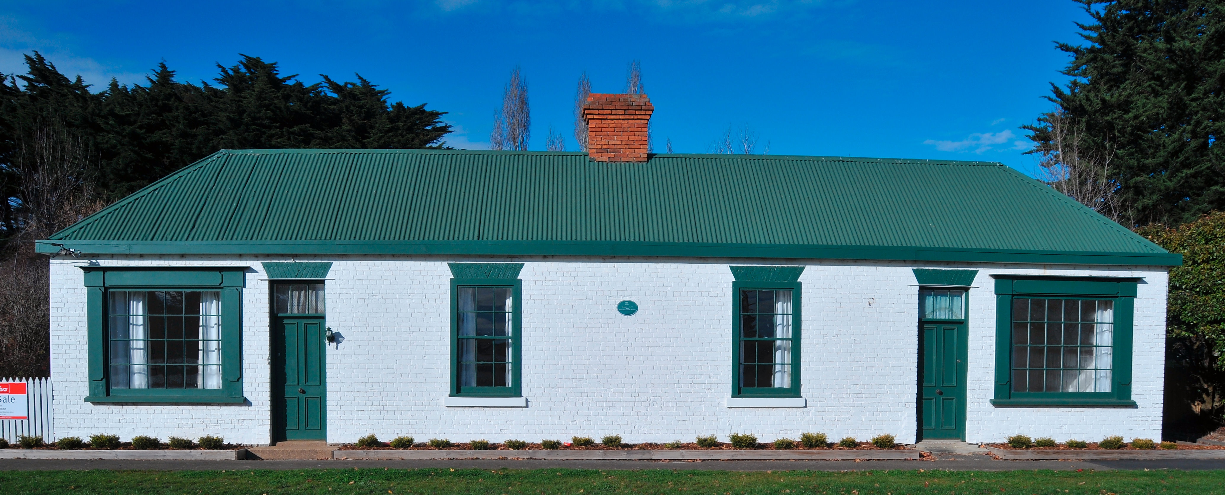 Cojoined 19th centry heritage listed houses in Carrick, Tasmania